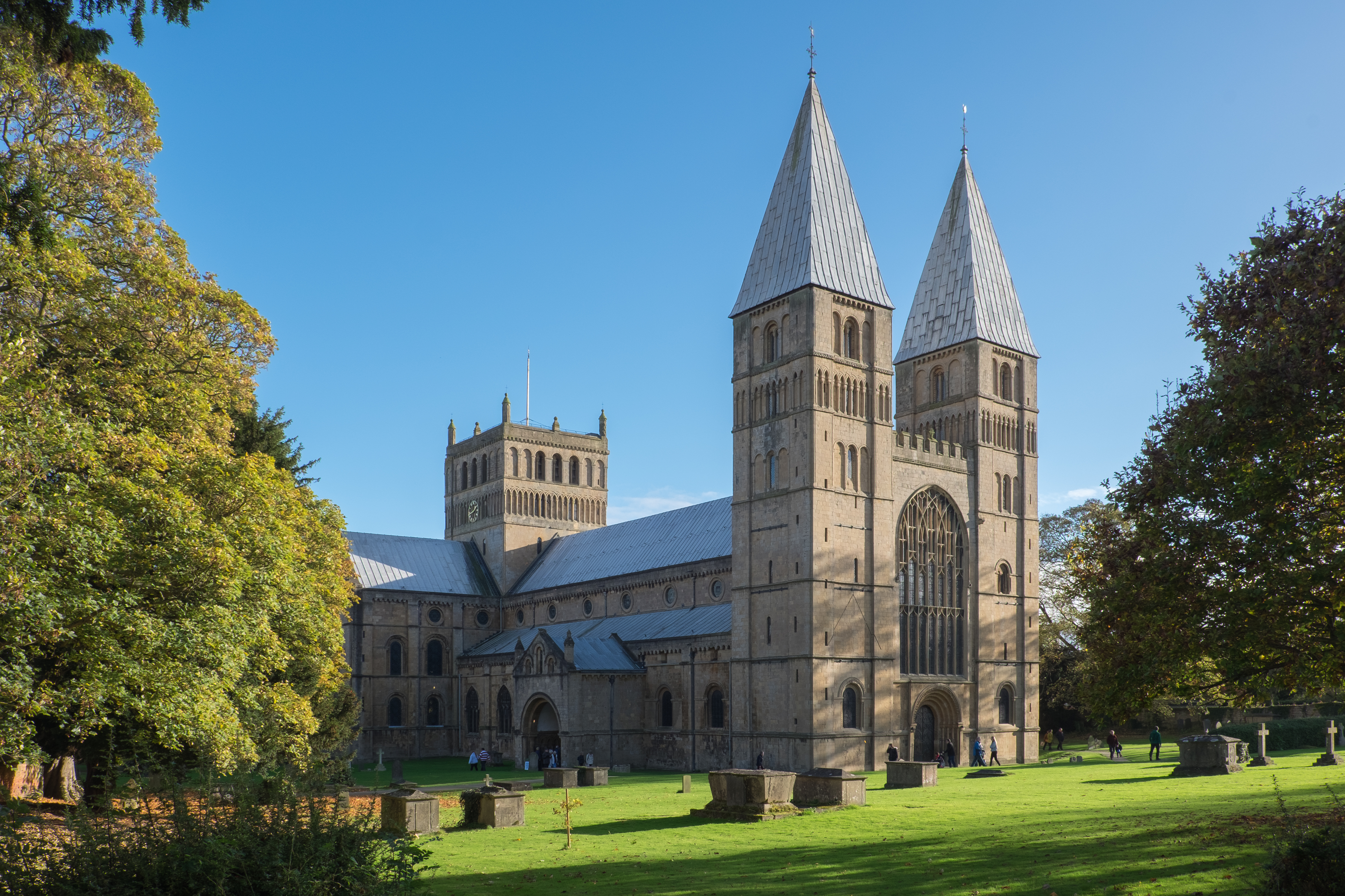 Southwell Minster, Nottinghamshire - from the north-west